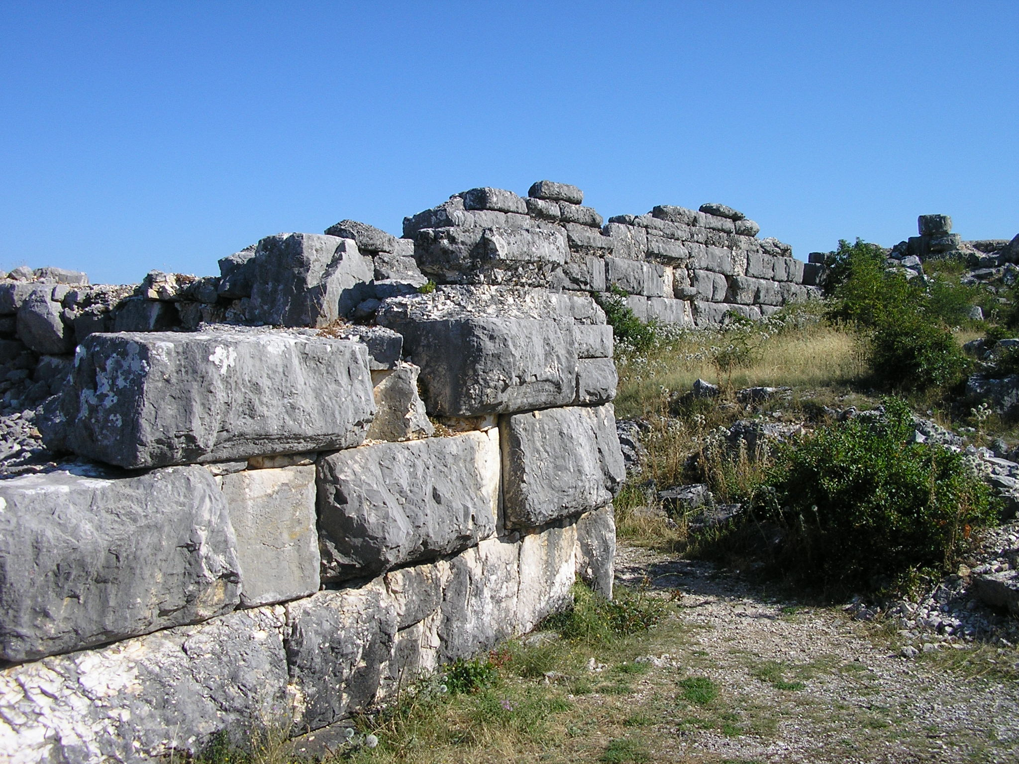 Daorson near Stolac